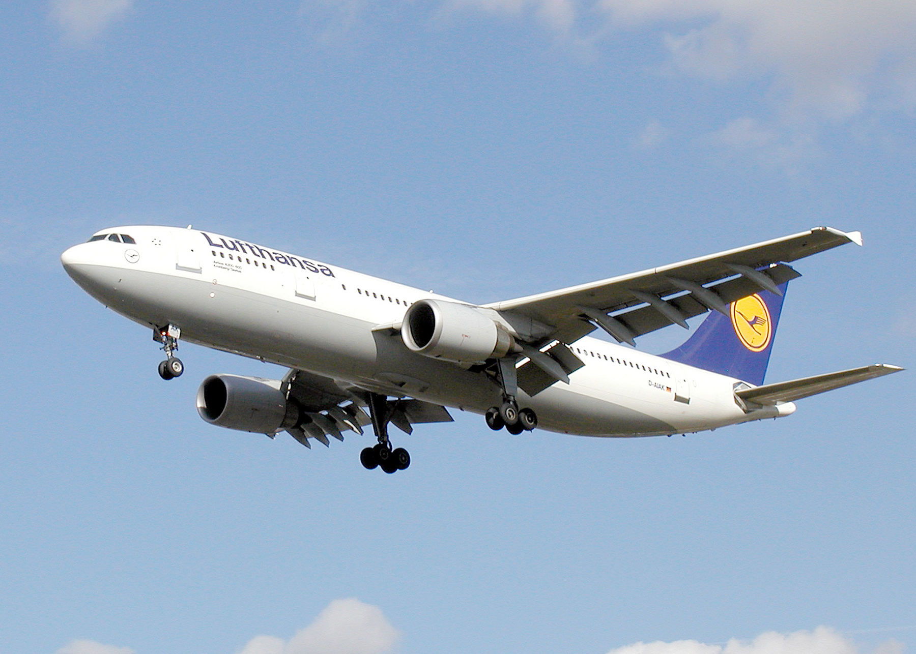 Lufthansa Airbus A300B4-600 (D-AIAK) “Kronberg / Taunus” landing at London (Heathrow) Airport, England. Photographed by Adrian Pingstone in 2002 and released to the public domain.